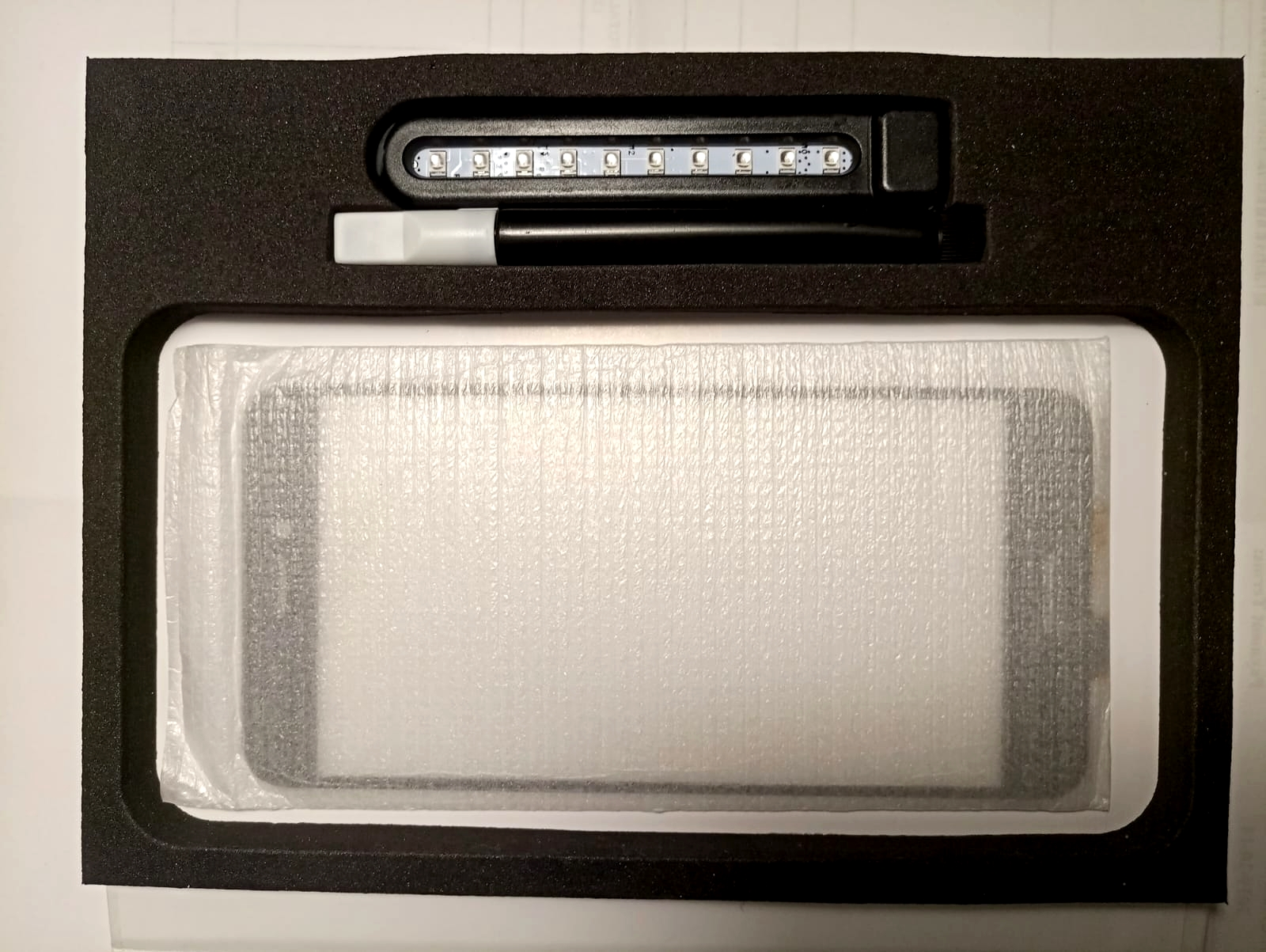 UV curing glue kit for replacing a Huawei-Screen